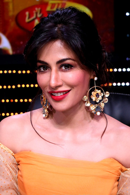 Chitrangada Singh promotes Raazi on the sets of DID Lil Masters 3